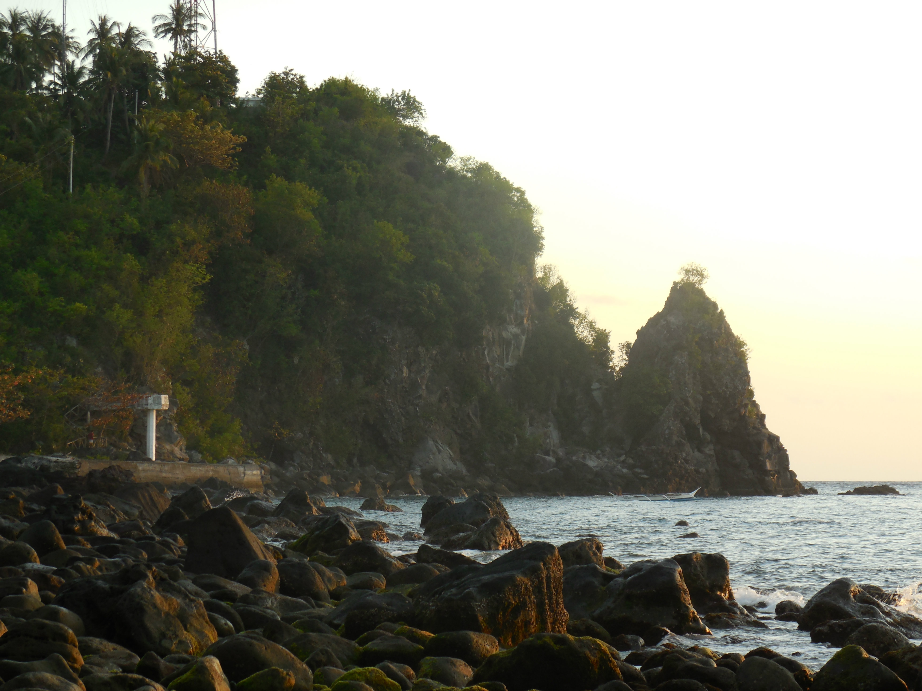 Punta Matagar rock formation in Banton, Romblon. Taken using my Nikon Coolpix S6500 and cropped using Adobe Photoshop.